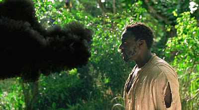 El sereno,was the black cloud from lost.